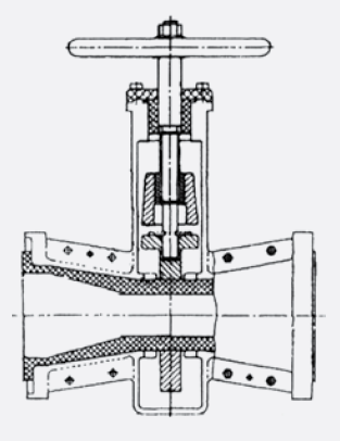 Gate valve